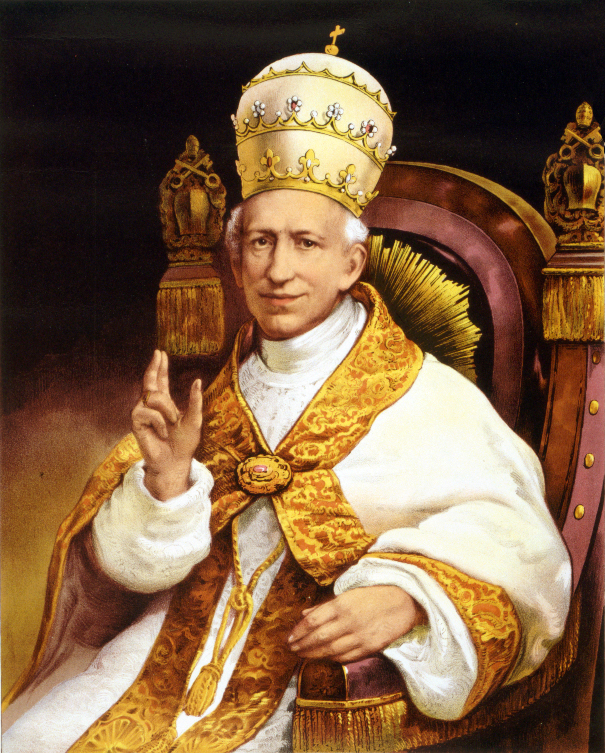 Pope Leo XIII. Halftone Photomechanical Prints.